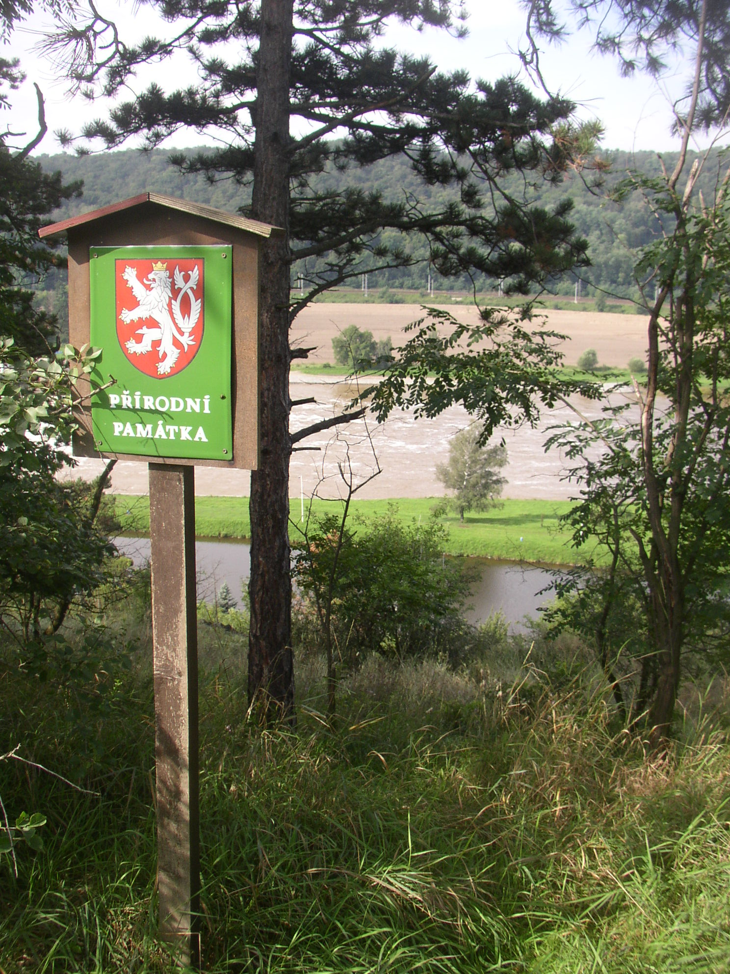 Hlaváčková stráň natural monument, Dolánky, part of Zlončice municipality, Mělník District, Czech Republic. A view from upper edge of the protected area in the valley of the Vltava River.